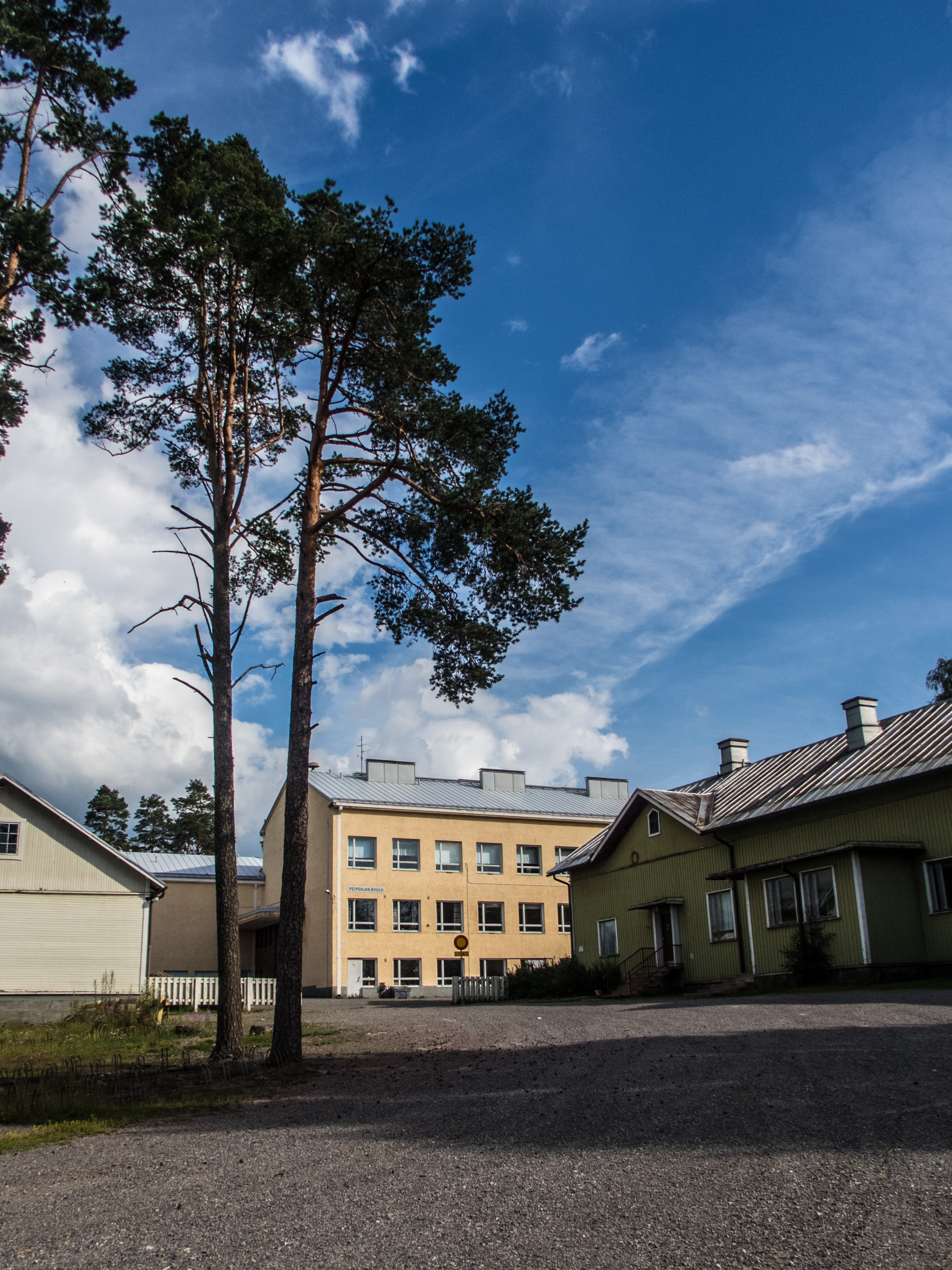 Peipohjan koulu, school in Peipohja, Kokemäki, Finland